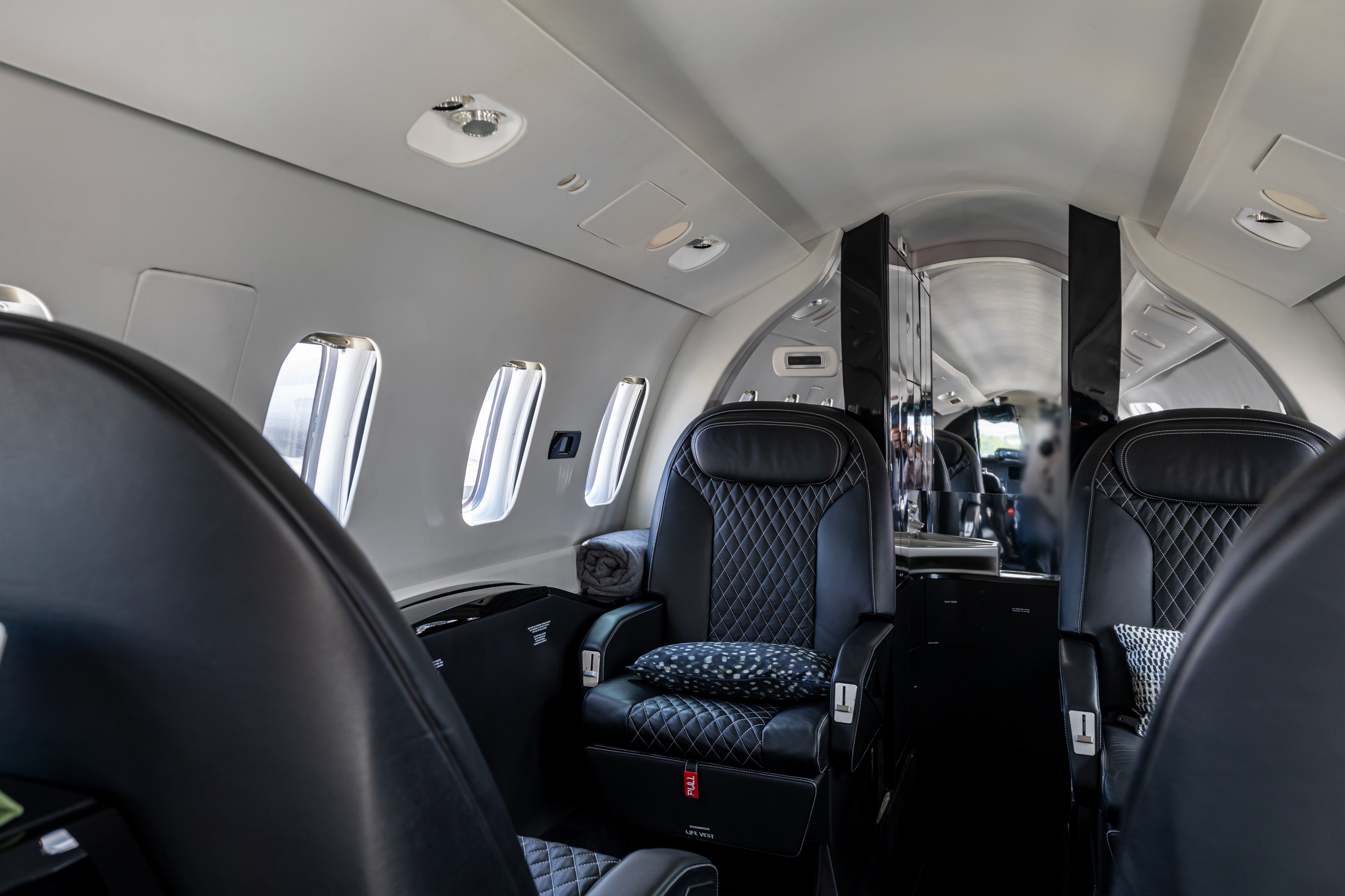 EBACE 2019, Palexpo, Switzerland